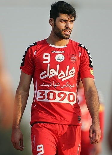 Mehdi Taremi, Iranian footballer in Persepolis training